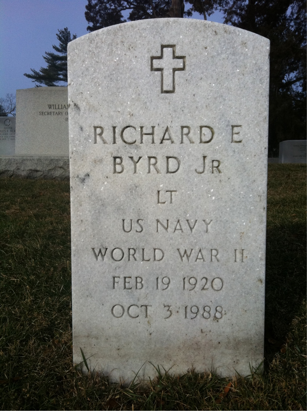 Grave of Richard Evelyn Byrd III at Arlington National Cemetery